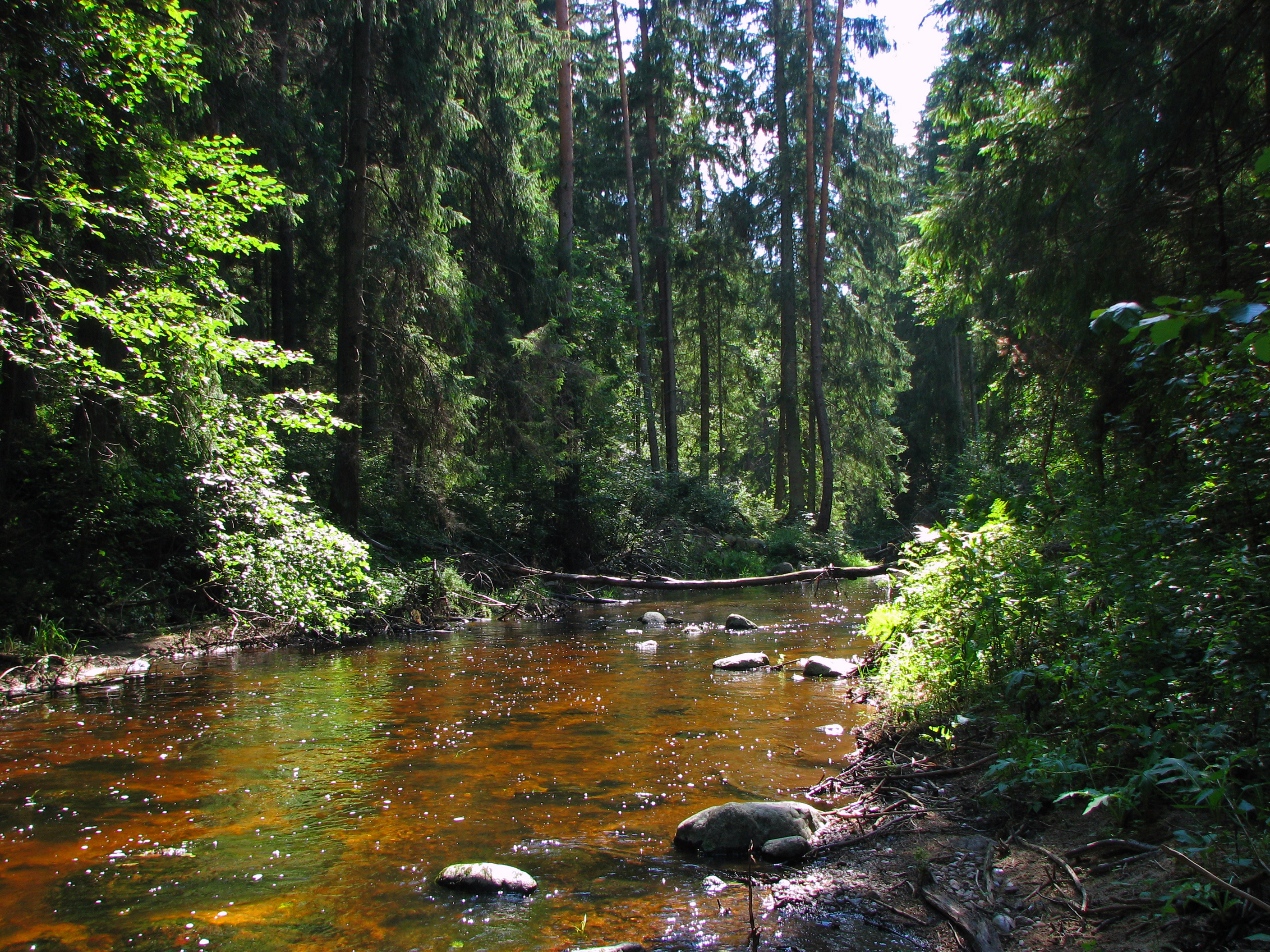 The Rudņa river, a right tributary of the Daugava, in Ūdrīši parish, Krāslava municipality, Latvia.